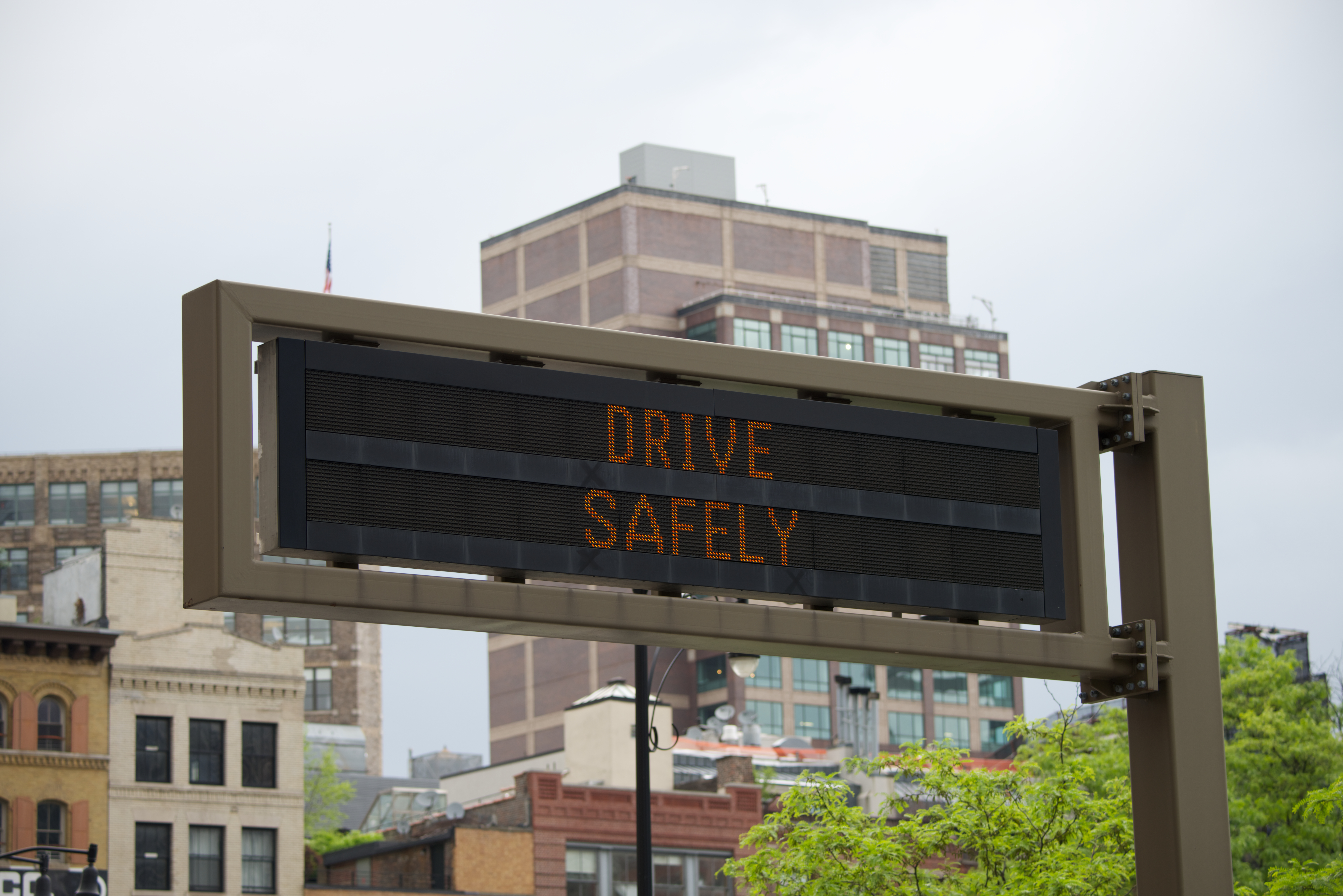 Road Safety Road Sign